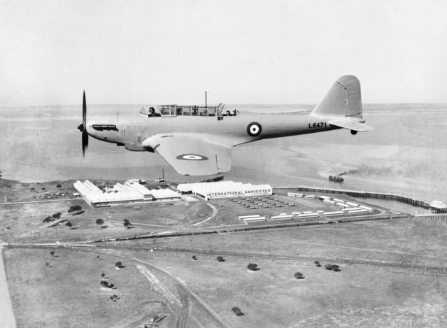 Vic. 1940-09-06. Fairey Battle aircraft L-5471, pilot, Flying Officer John C. Archer RAF, in flight over Port Phillip Bay (or Corio Bay), Geelong, Vic. area. The aircraft has been photographed from another Battle flown by Squadron Leader John Margrave Lerew RAAF.